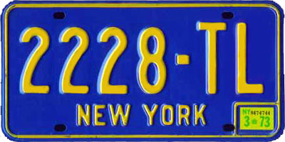 1973 New York License Plate